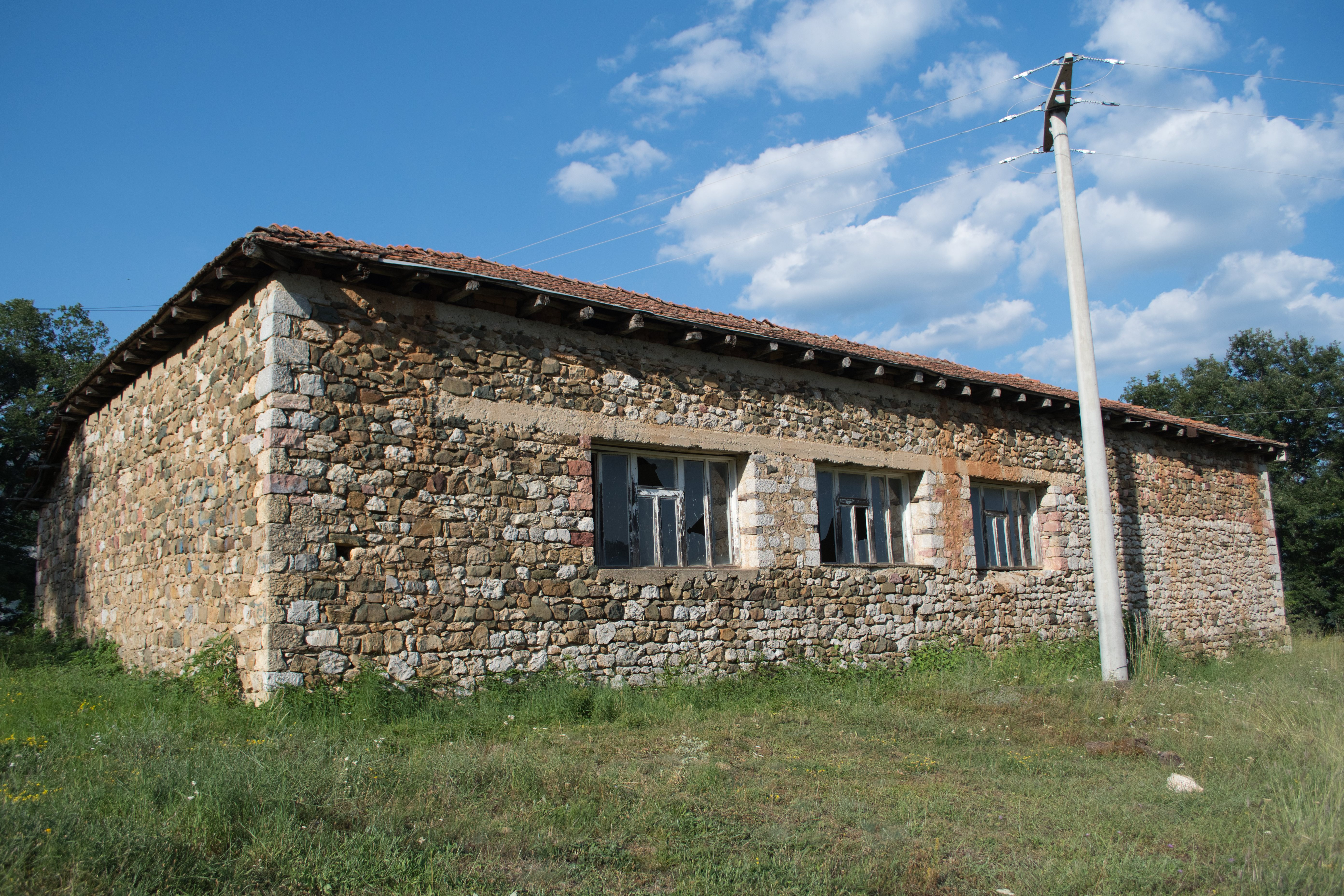 Building of a former agricultural cooperative in the village of Nerezi